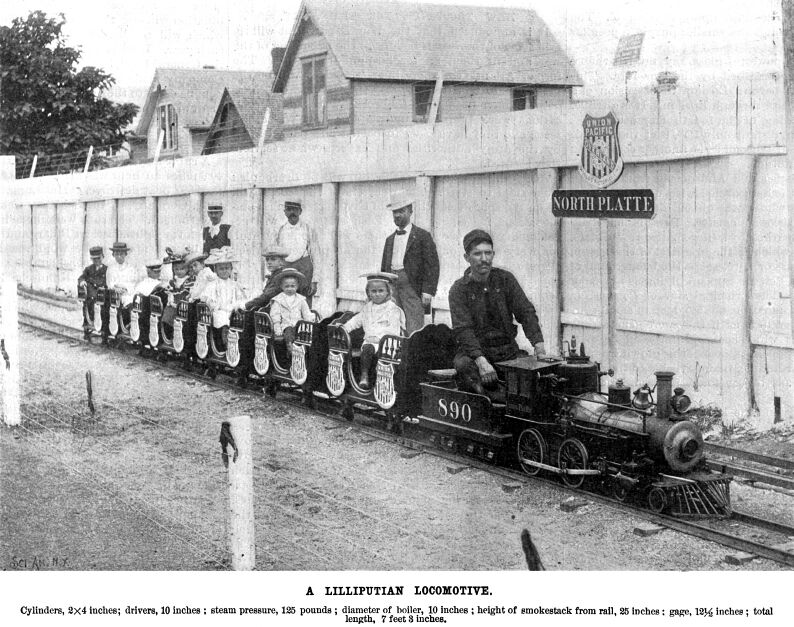 A Lilliputian Locomotive at the Trans-Mississippi and International Exposition at Omaha